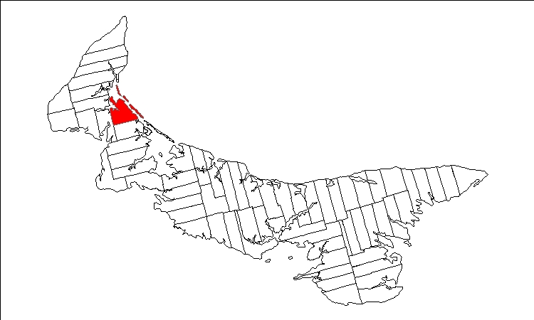 Public domain map of Prince Edward Island created by User:Plasma east with data courtesy of Geogratis, modified to show townships. Released under GFDL (self).